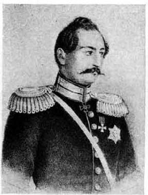 Prince Ilia Orbeliani, Georgian nobleman and general in Russian army